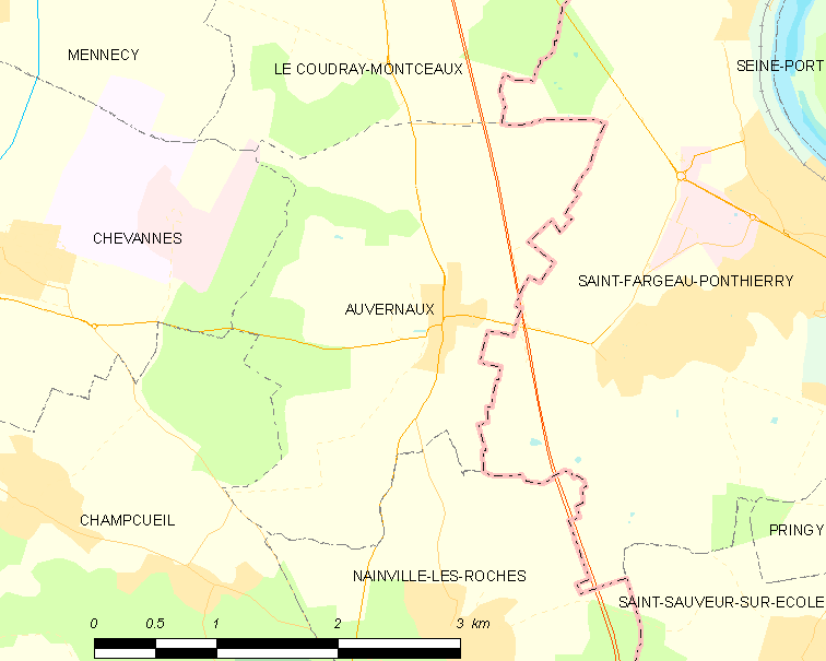 Map of French municipality Auvernaux